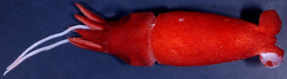 Bathyteuthis abyssicola from Ross Sea, Antarctica at 67°37'S, 178°55'W